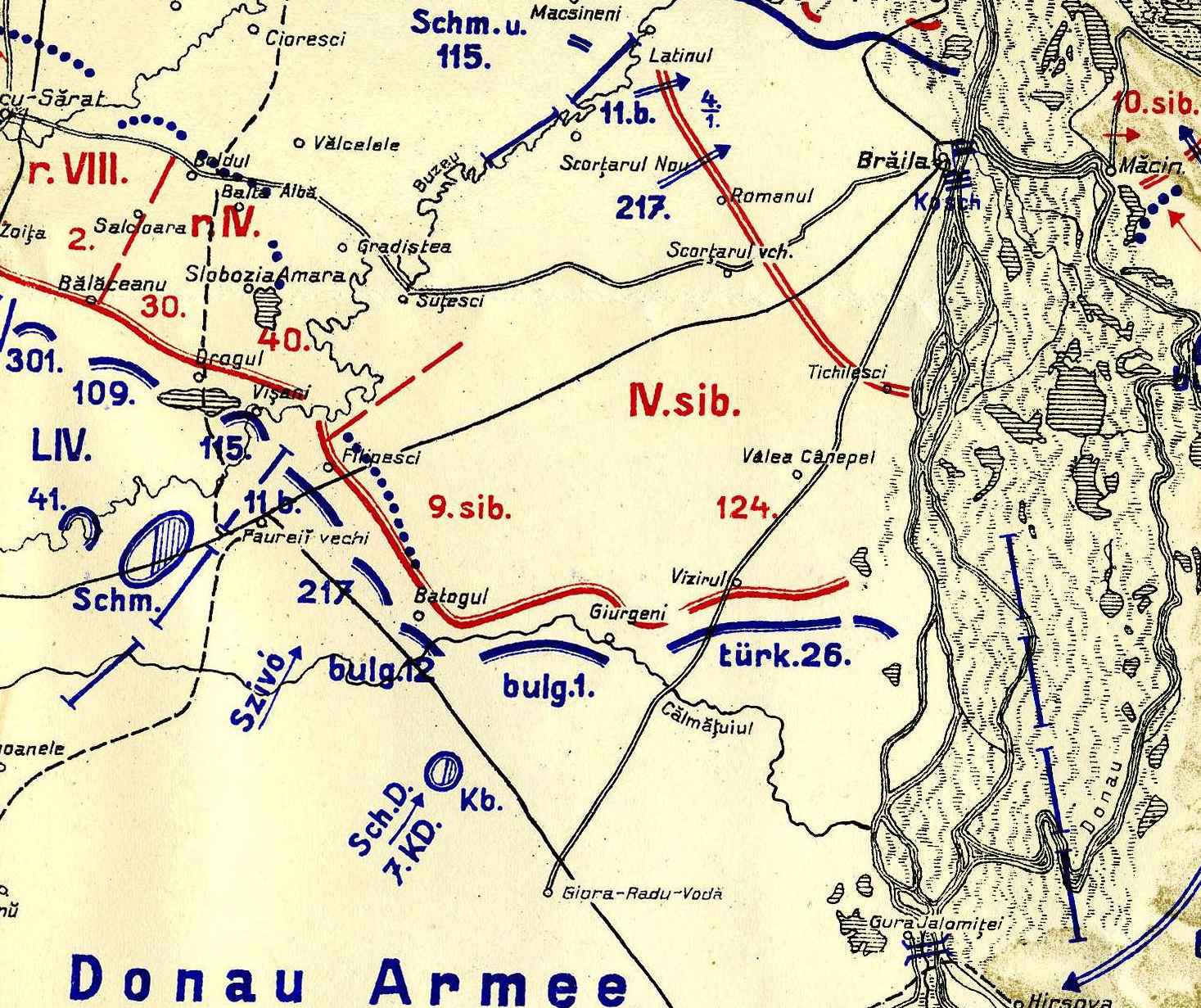 Romanian Front in WWI - The military operations on the Bordei Verde-Viziru alignment, 1916